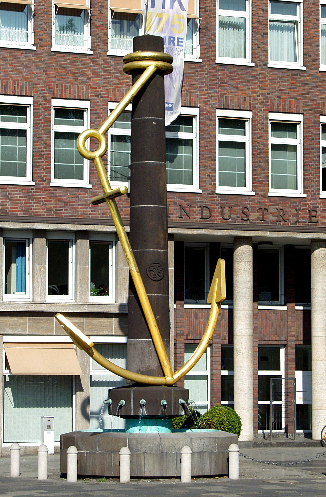 Anchor fountain in front of the building of "Niederrheinische Industrie- und Handelskammer" in Duisburg, Germany